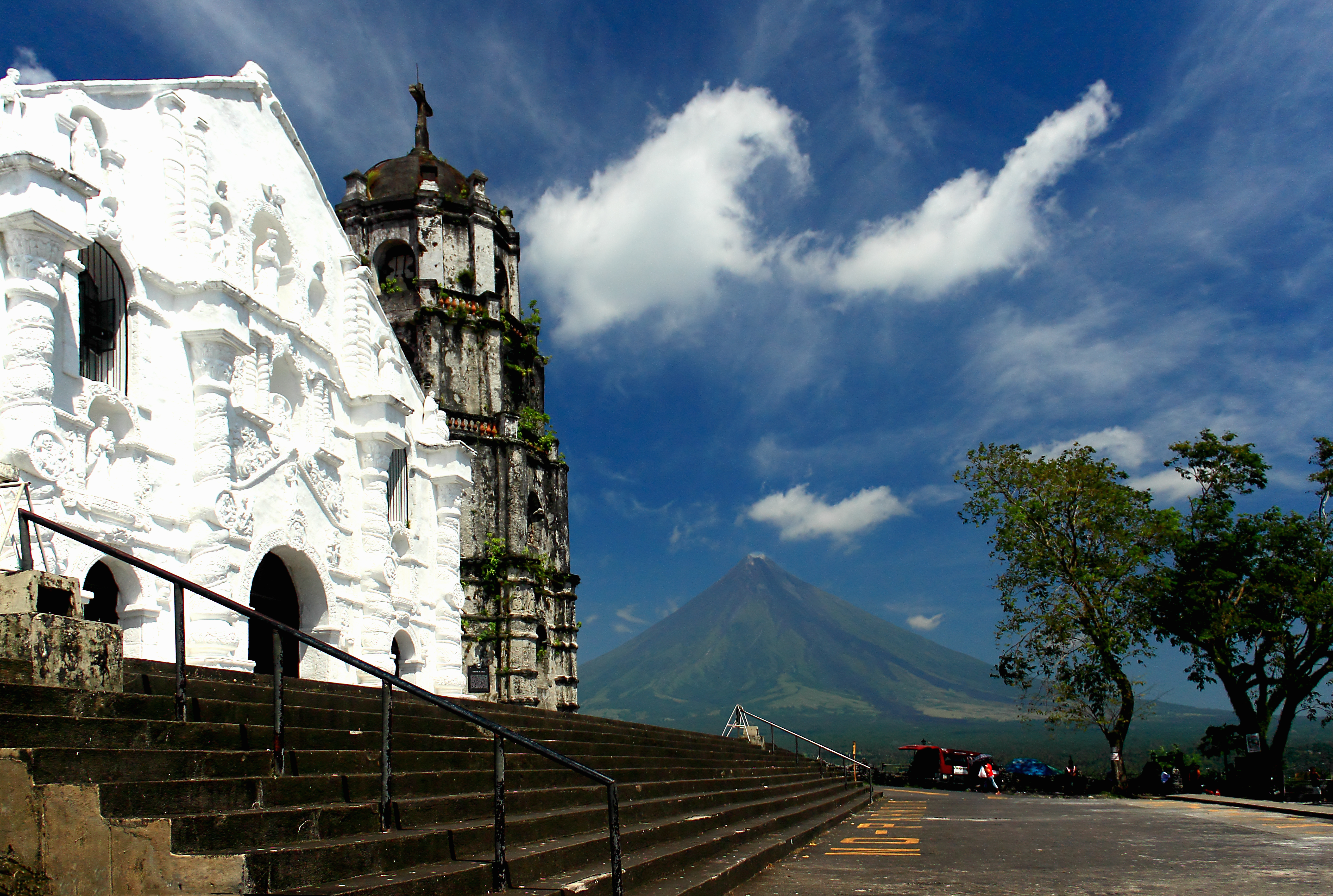 Daraga Church, behind it Mayon Volcano on clear day